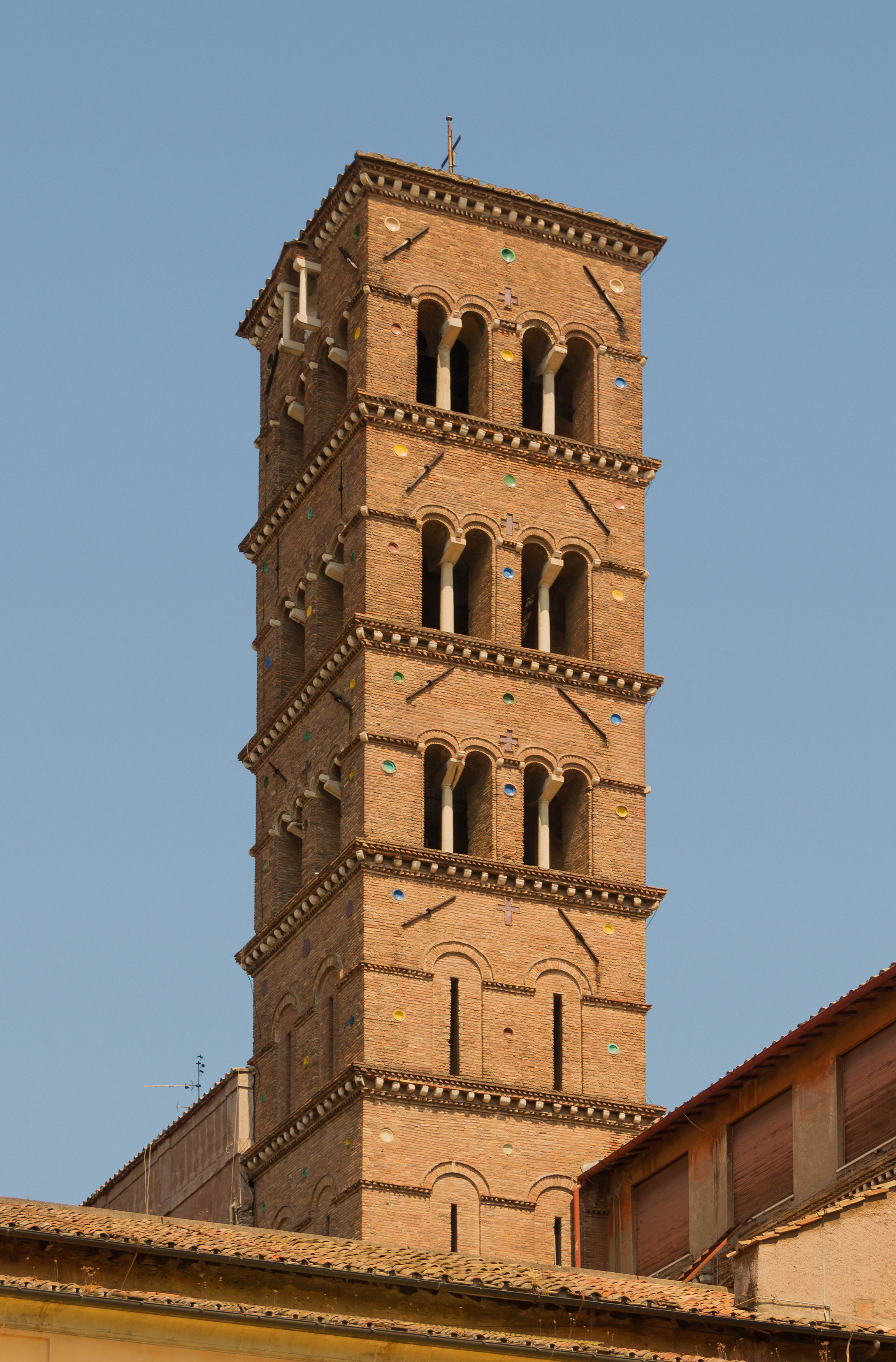 The campanile of the church Saint Francesca Romana, Rome, Italy.